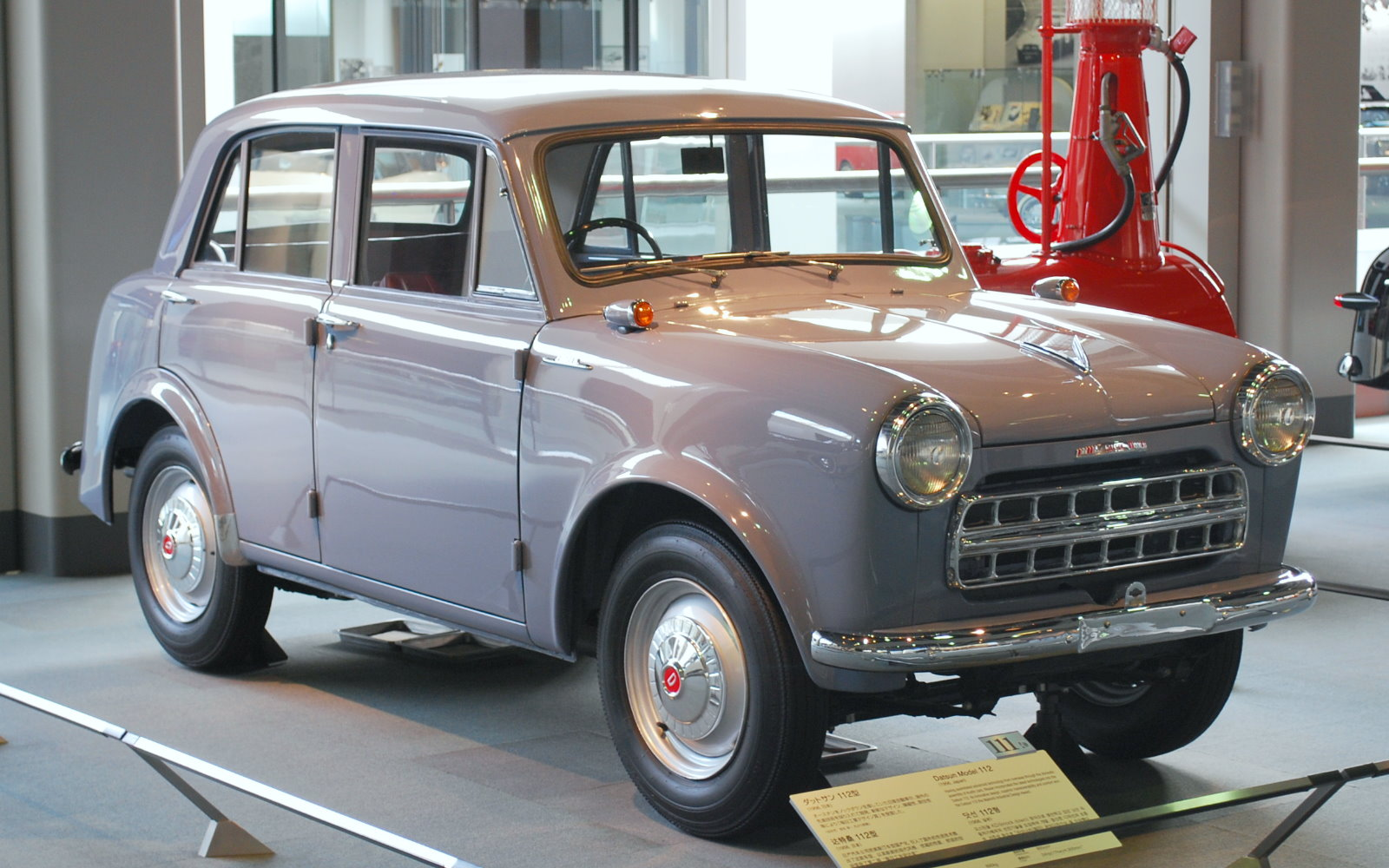 Datsun_Model_112